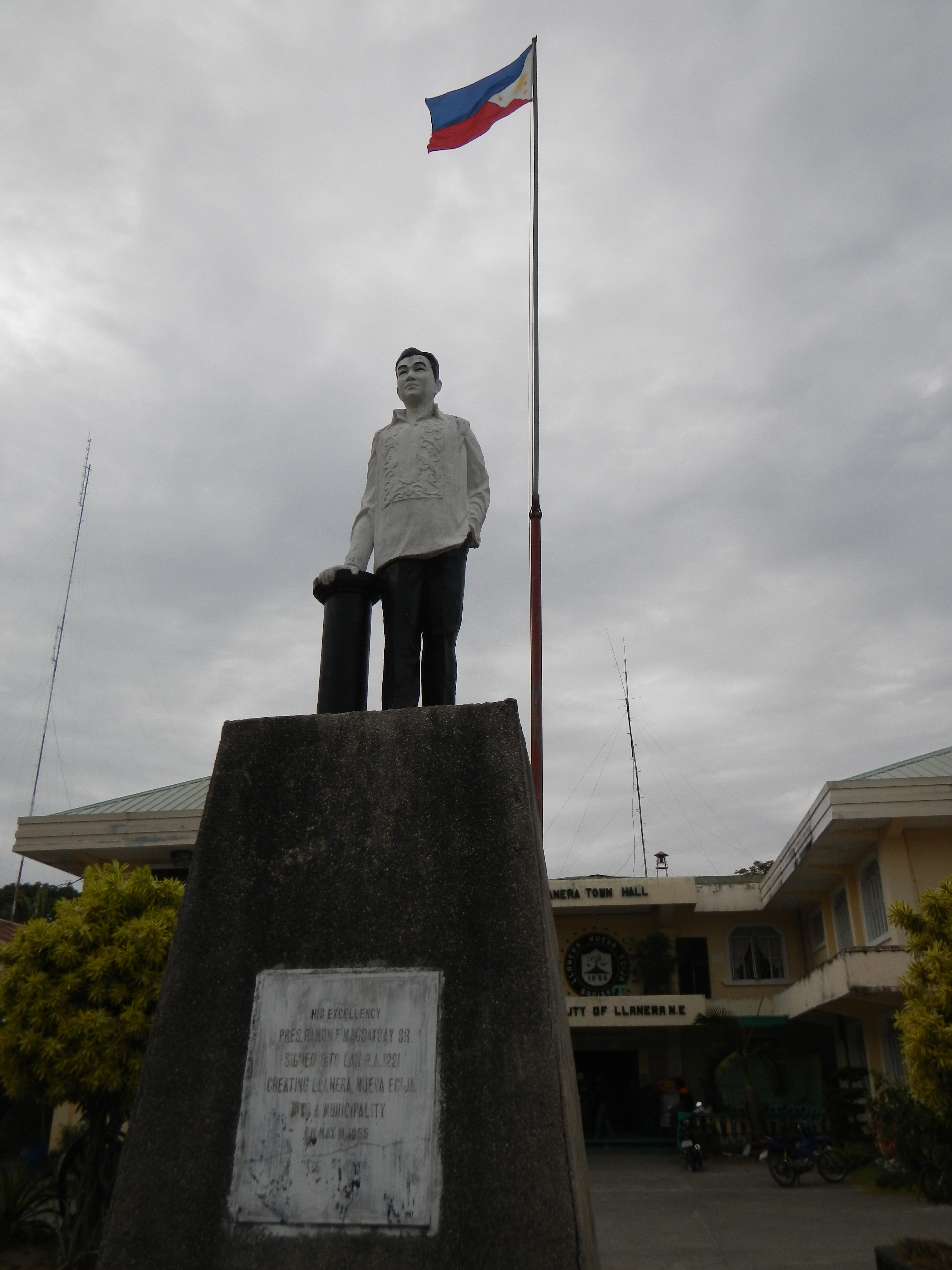 Llanera, Nueva Ecija[1] is a fourth class municipality in the province of Nueva Ecija, Philippines. According to the 2010 census, it has a population of 36,200 people.[2][3] Land Area: 114.44 km² ZIP Code: 3126 Coordinates: 15°39'44"N 120°59'30"E[4] [5]Mariano Llanera (1855-1942) of Gapan, Nueva Ecija. He was a Filipino General who fought in the provinces of Bulacan, Tarlac, Pampanga, and Nueva Ecija.